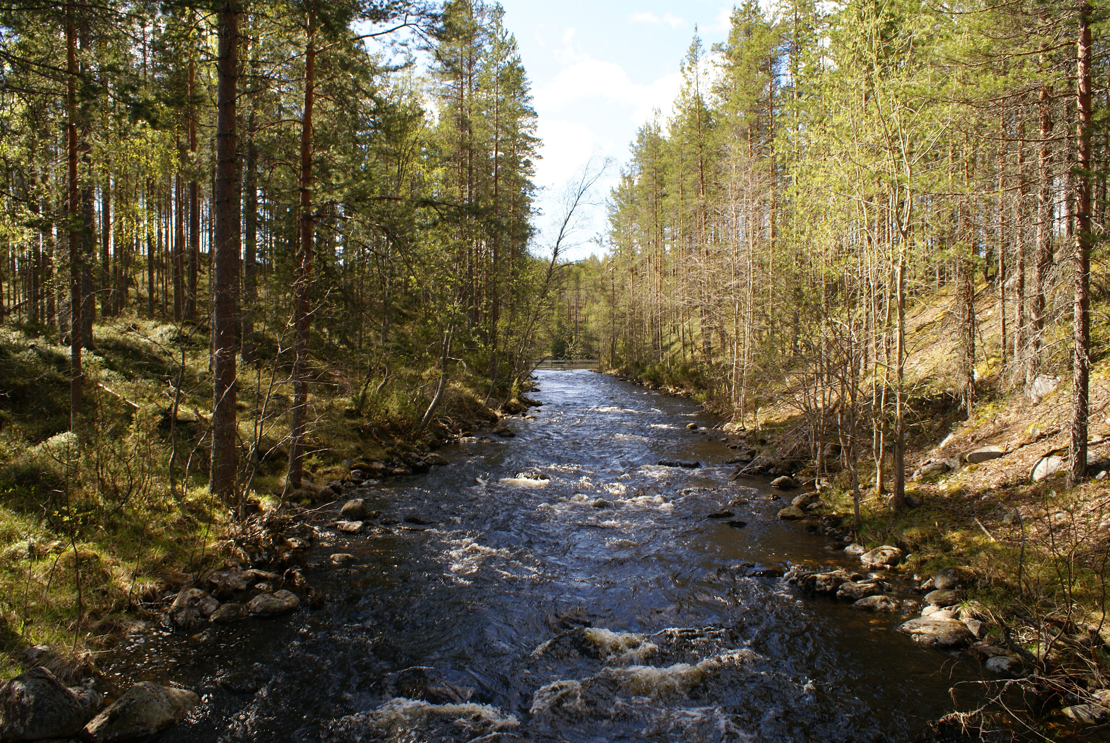 Huosivirta creek in the Hossa Hiking Area in Suomussalmi, Finland.